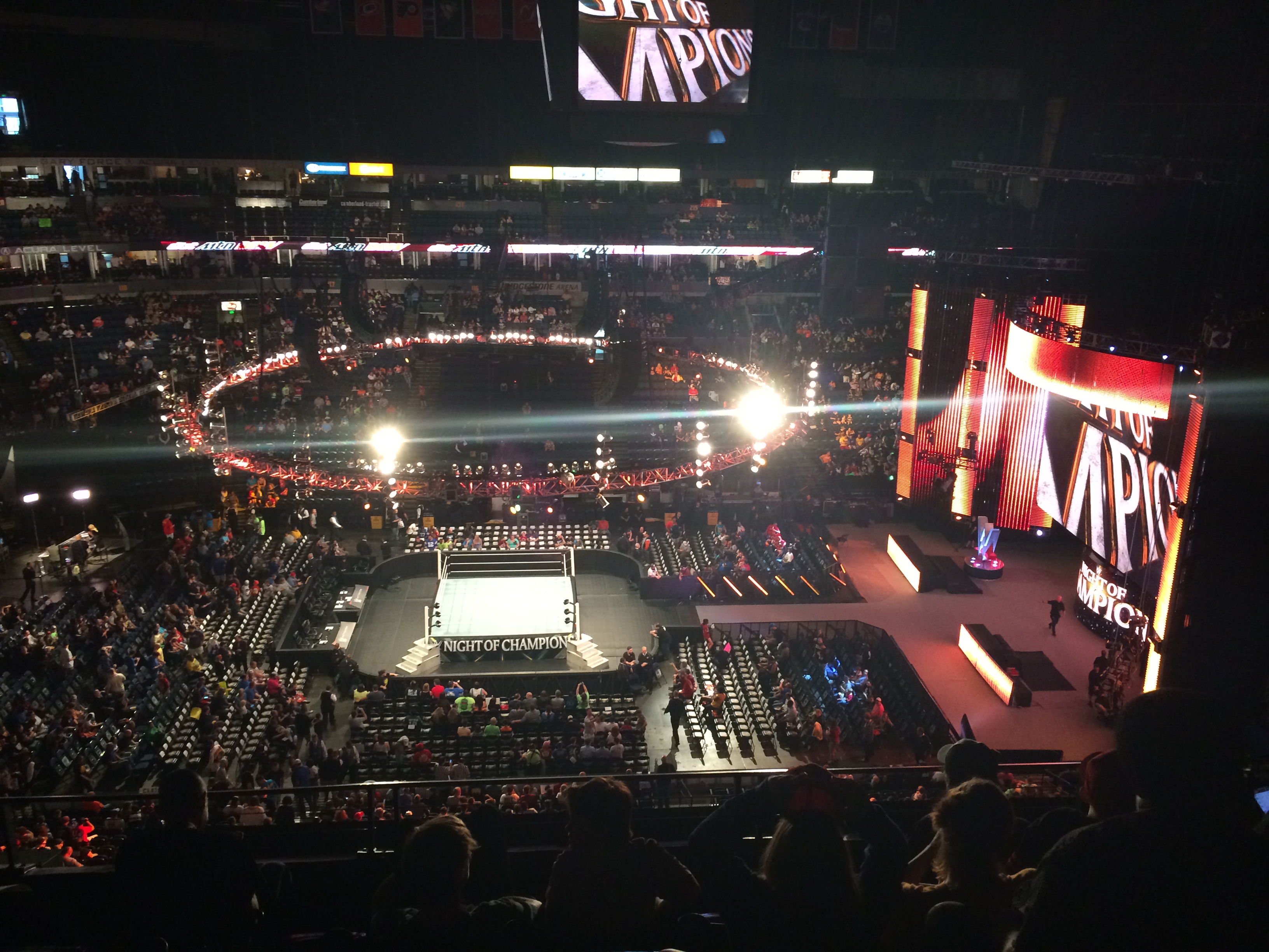 The set at Night of Champions in Nashville, TN on September 21, 2014.